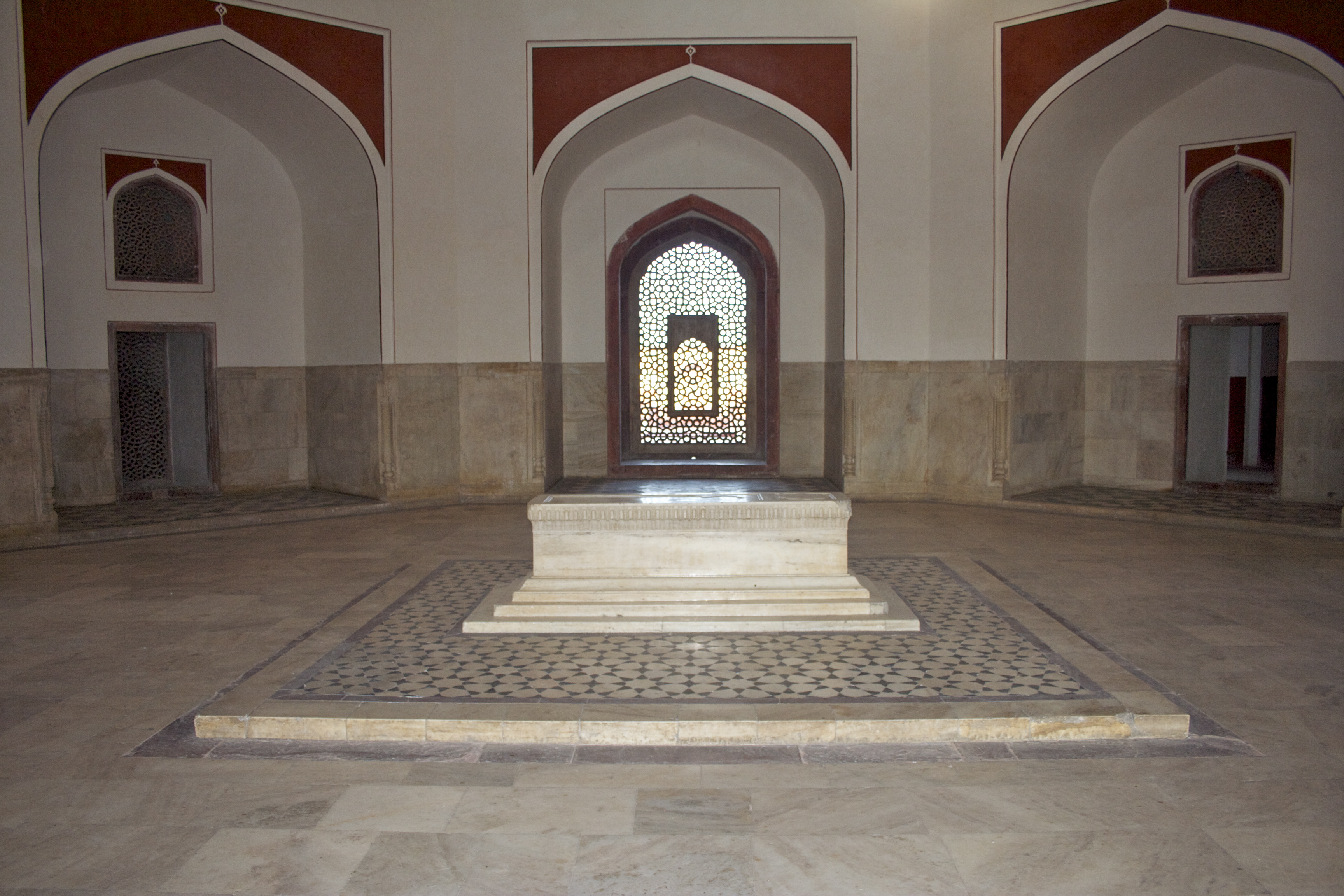 Humayun tomb interior